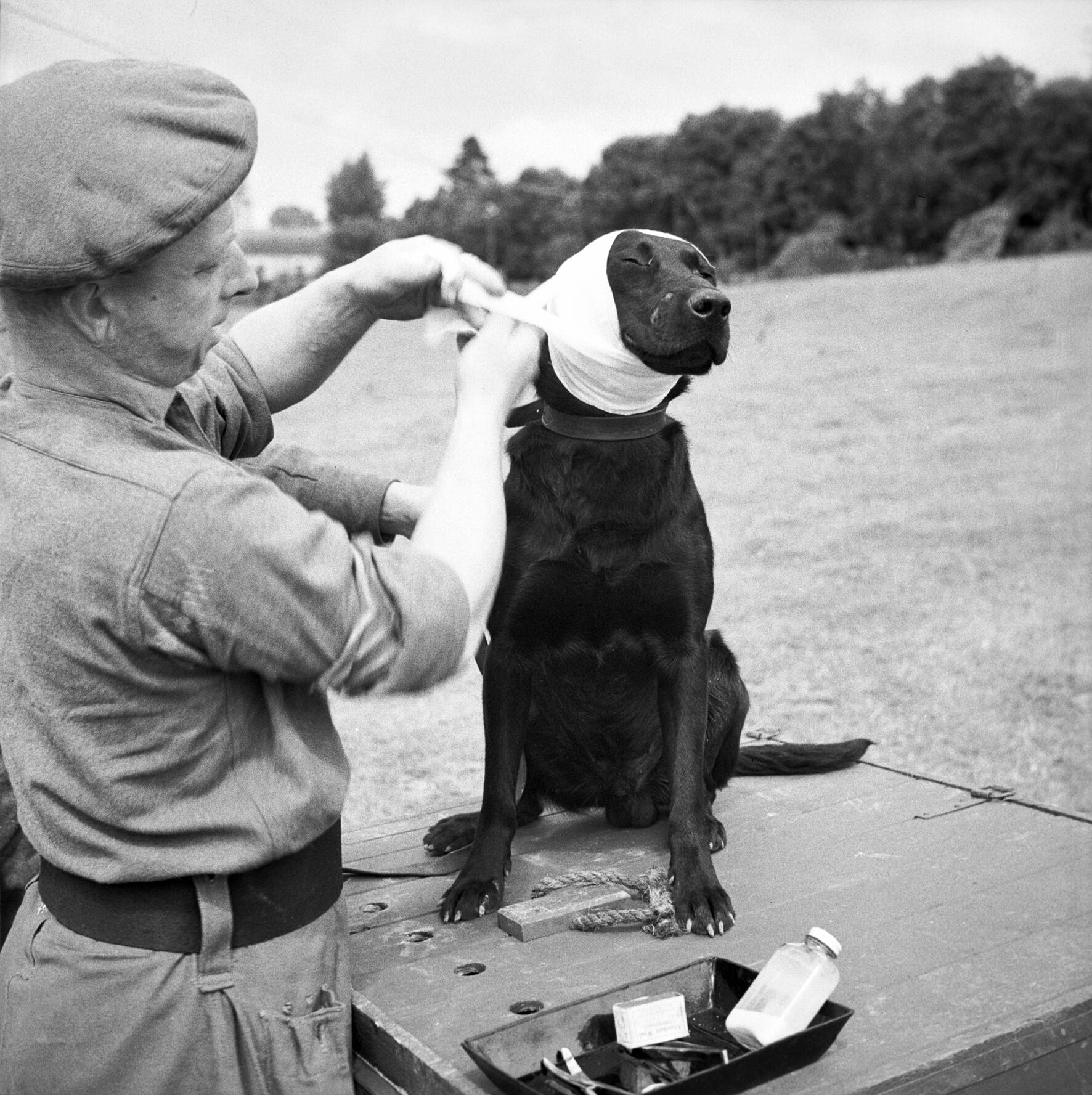 A sergeant of the Royal Army Veterinary Corps bandages the wounded ear of 'Jasper', a mine-detecting dog at Bayeux in Normandy, 5 July 1944. A sergeant of the Royal Army Veterinary Corps bandages the wounded ear of 'Jasper', a mine-detecting dog, Bayeux, France.